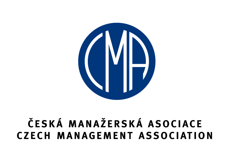 Logo of CMA – Czech Management Association